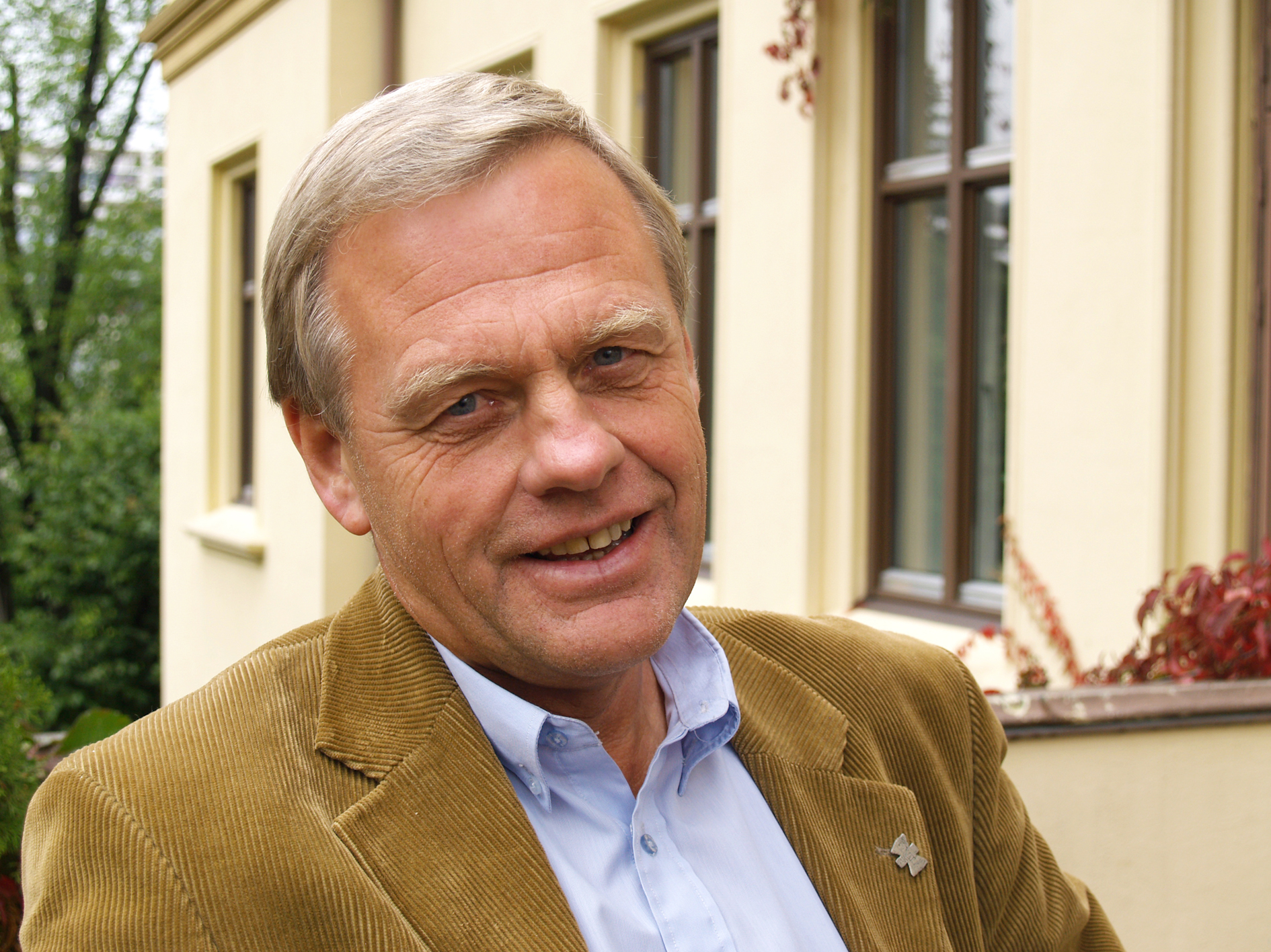 Ernst Oddvar Baasland, Lutheran bishop of Stavanger, Norway